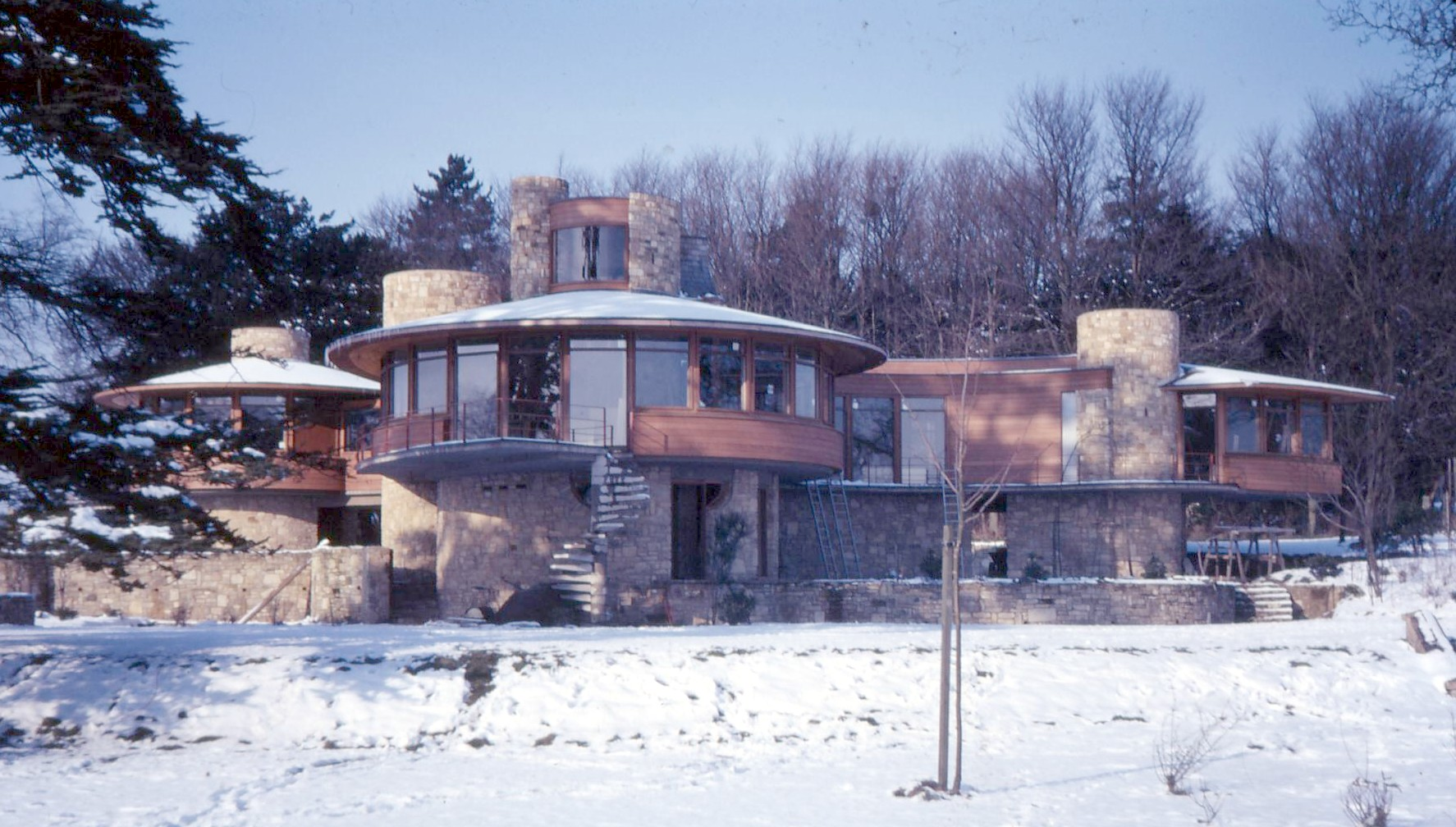 Horton Rounds, Horton designed by Arthur Marshman. This is a very early picture as it was taken during construction (Probably late 1971/early 1972) - you can see ladders etc. by the house. The house was occupied from circa 1972.